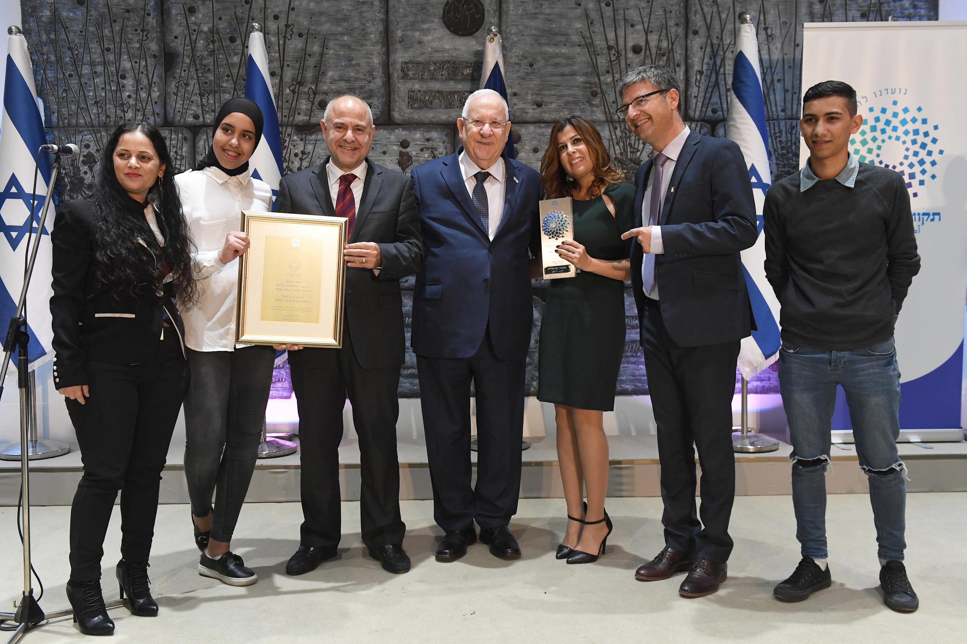 For the third year, the President of Israel, Reuven Rivlin, has awarded the "President's Award for Education for Partnership" for 2016/17, as part of the "Israeli Hope for Education" conference in cooperation with the Minister of Education and the Lautman Foundation Wednesday, November 22, 2017. Photo Credit Mark Naiman / GPO.